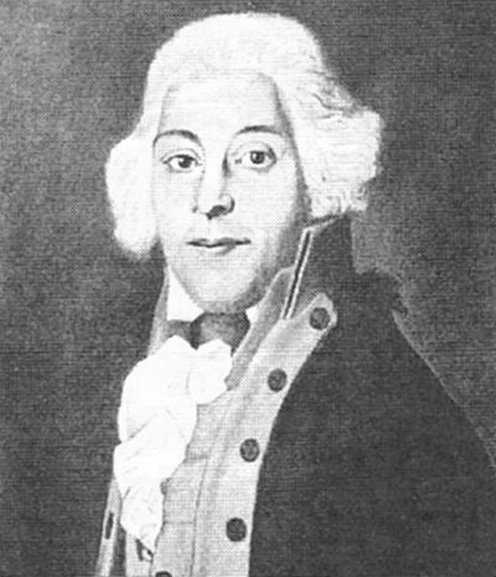 Johann Friedrich Wedding (1759–1830), German engineer.